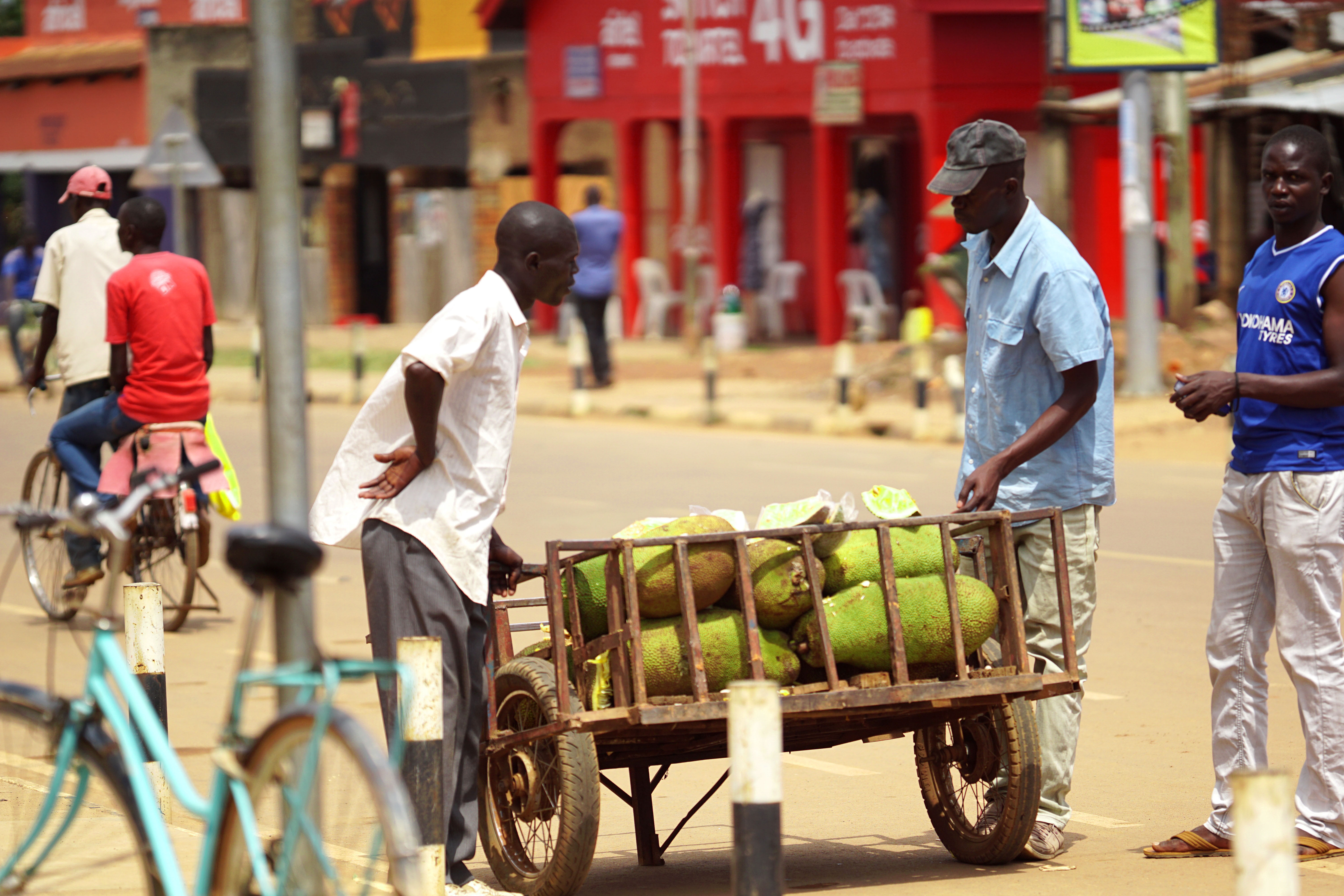 The man in a white shirt has a number of jackfruits in his cart, consisting of those sliced and read to eat as well as whole jackfruits. He appears to be bargaining or going through the process of selection with a customer.